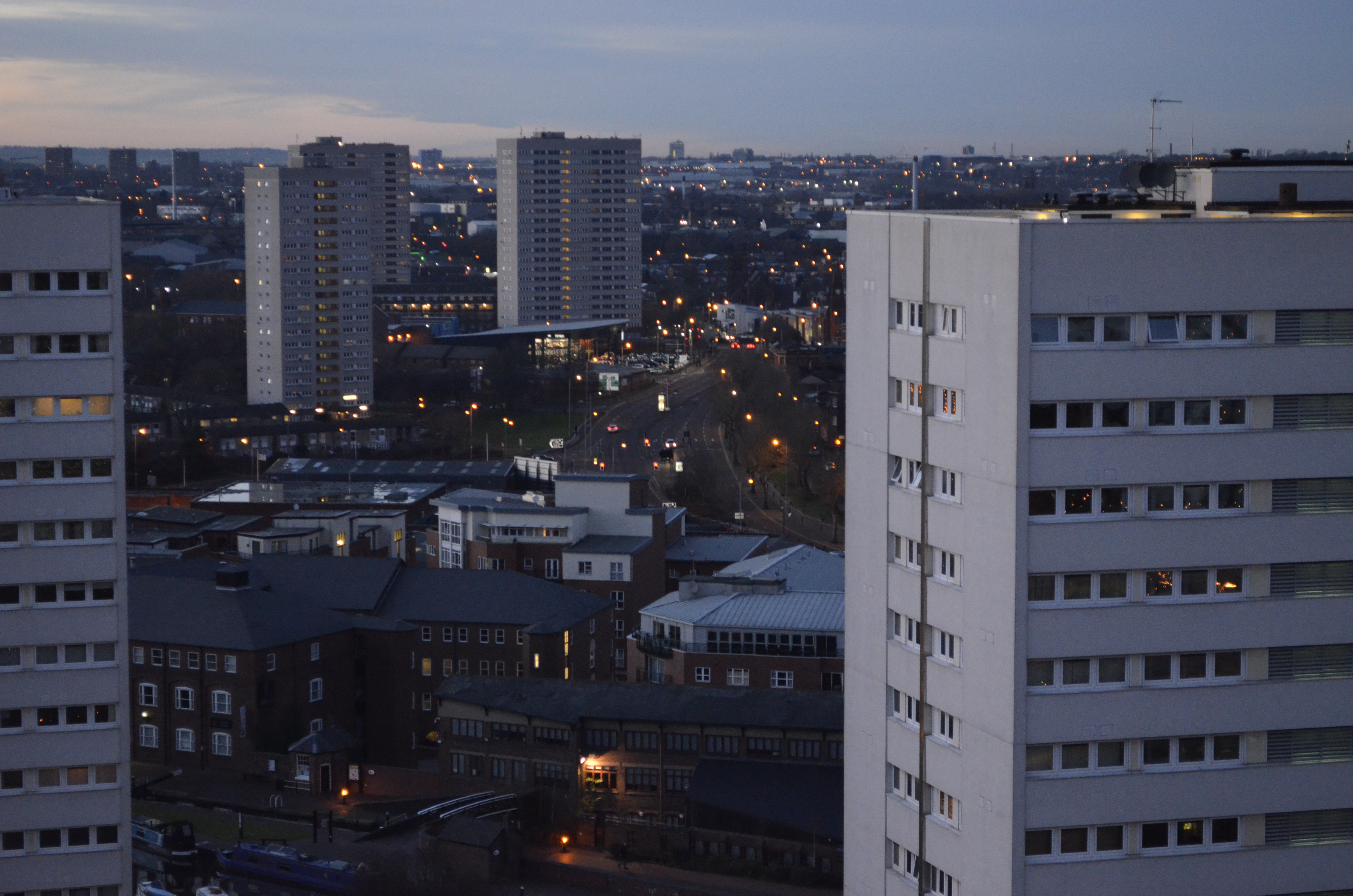 Ladywood towers blocks, taken from the Library of Birmingham on 21/01/2014.